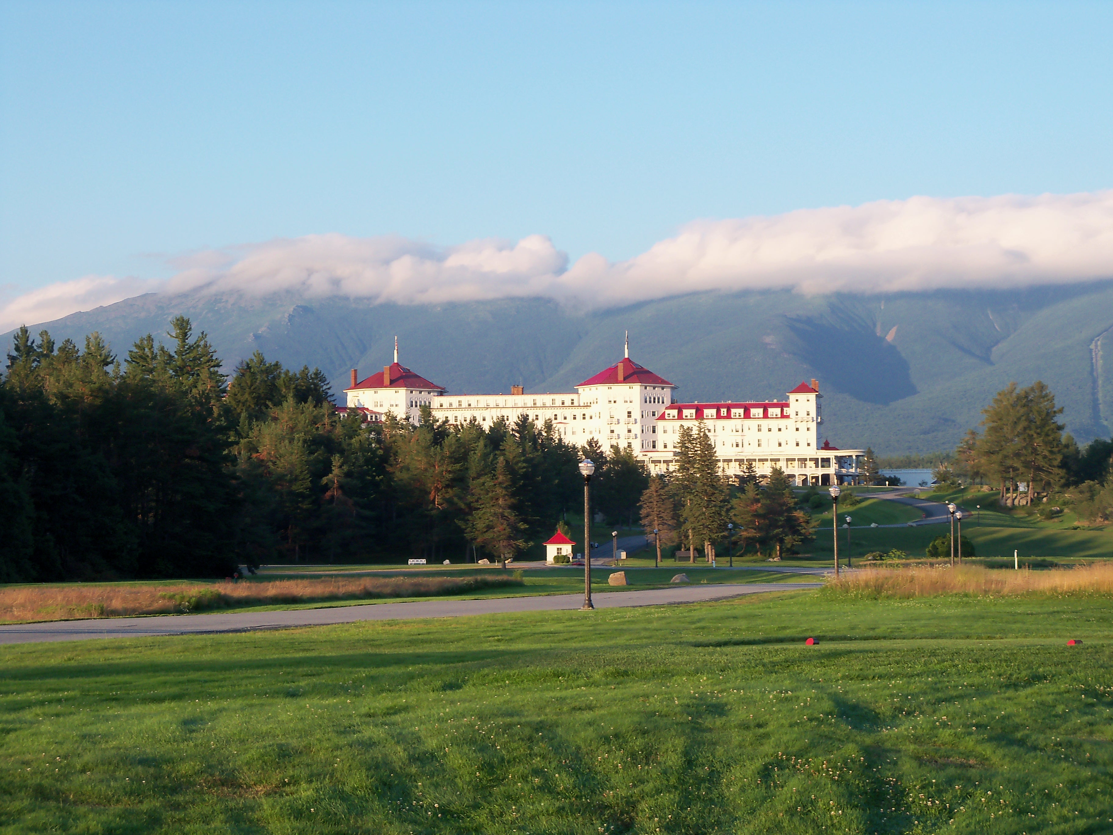 Photo of the Mt. Washington Hotel and Resort in July 2010.